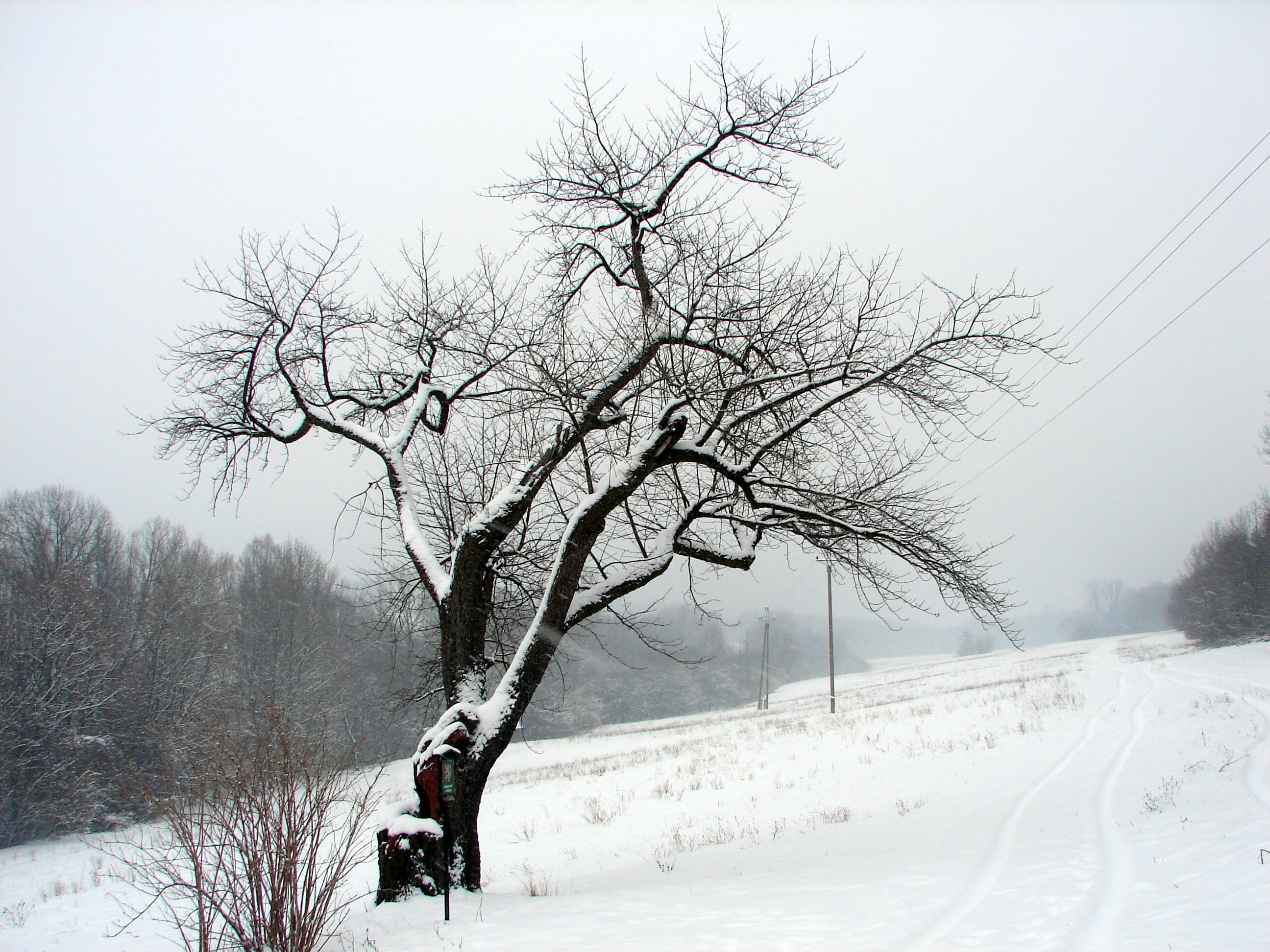 Memorable tree Špirudova oskeruše in Hodonín District, Czech Republic. Service Tree, Sorbus domestica.